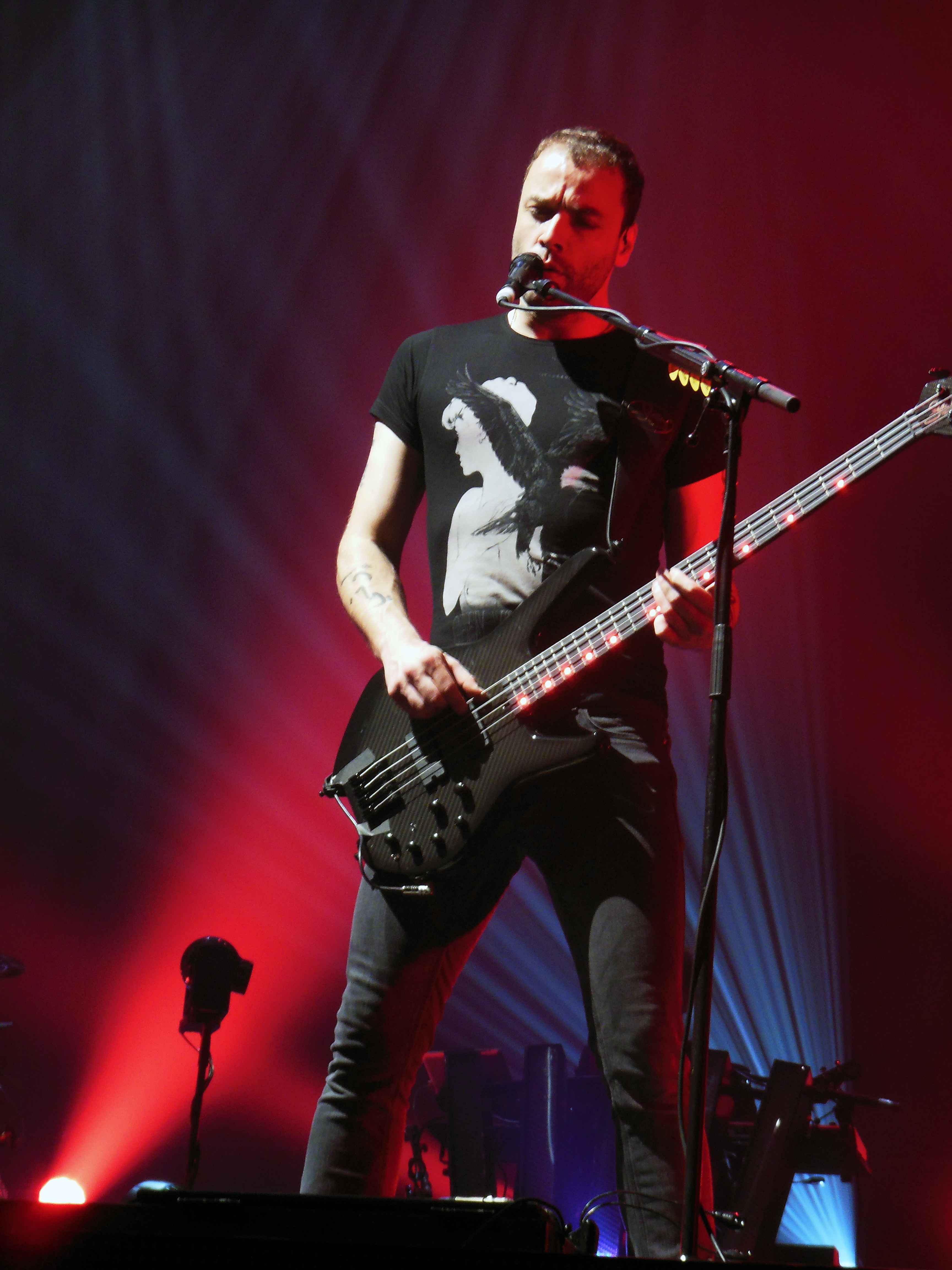 Photo taken at the Sleep Train Arena.